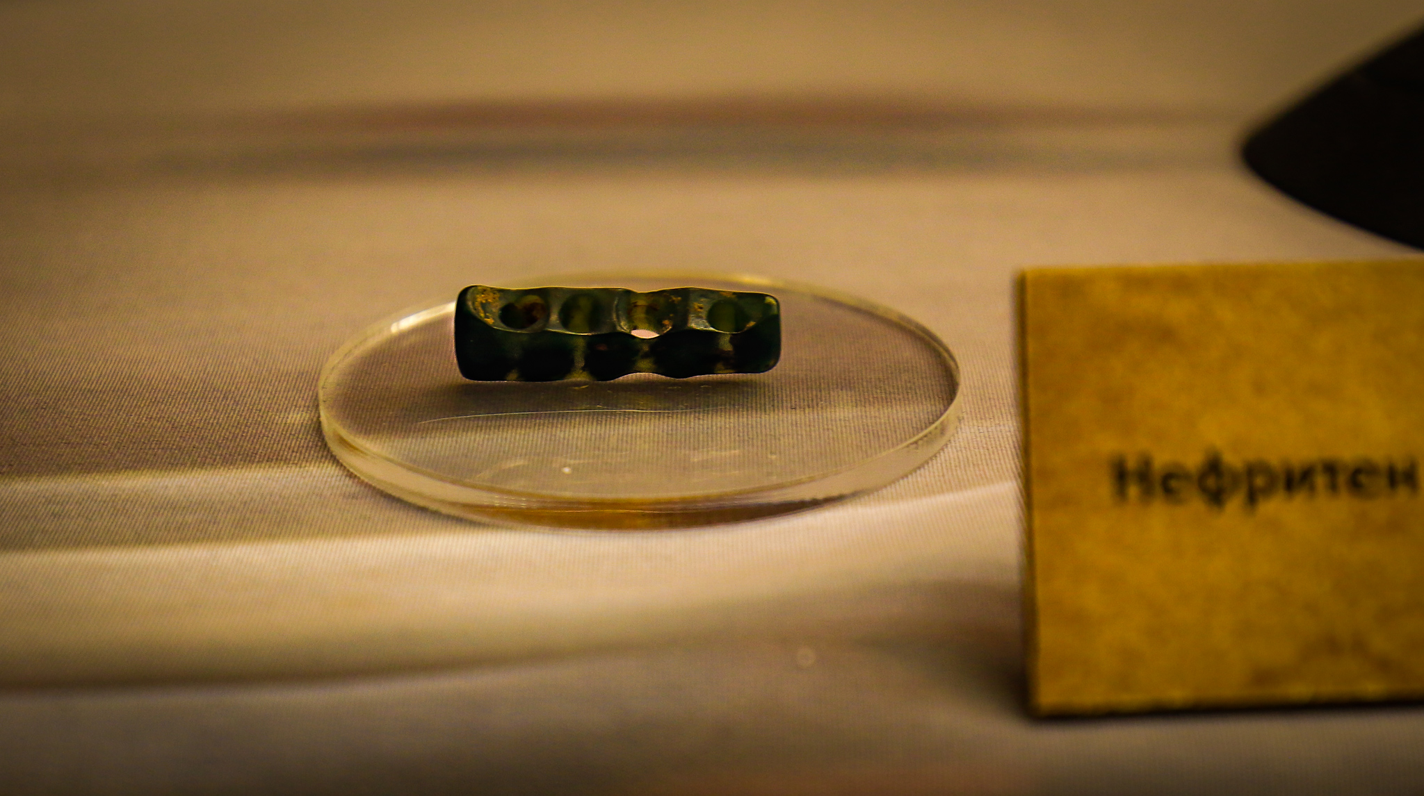 The nephrite holder of Galabnik Tell, Pernik (Bulgaria)